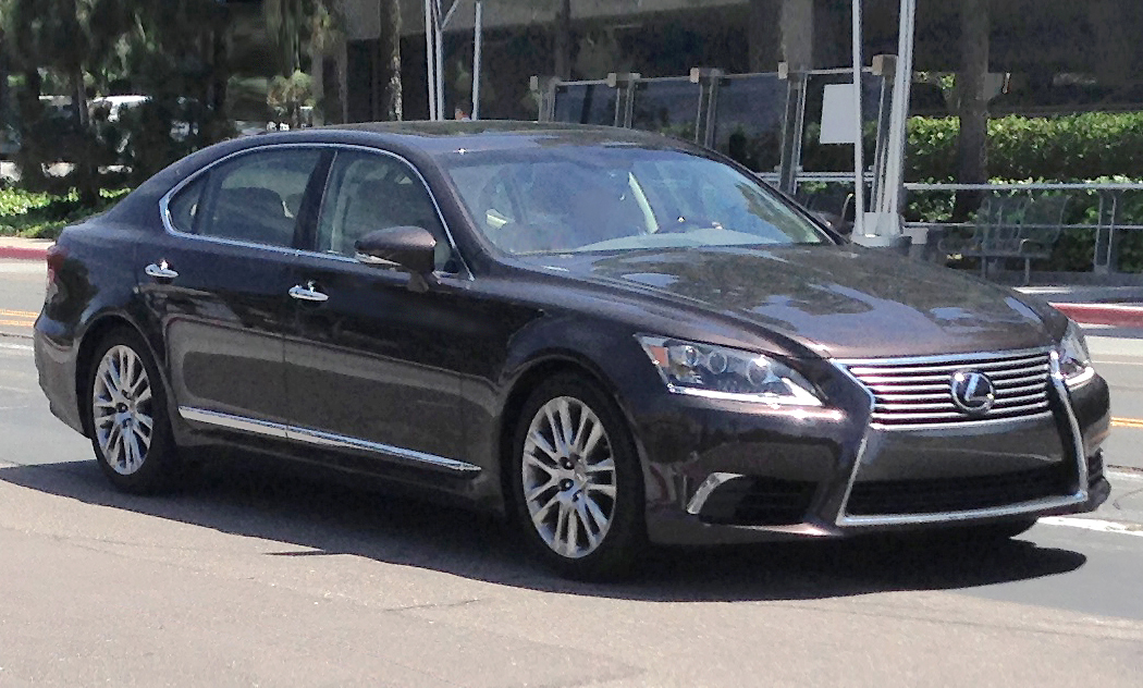 LS 460 L